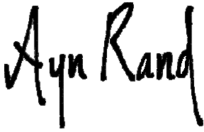 Ayn Rand's sign. Sicilianu: Signature de Ayn Rand.